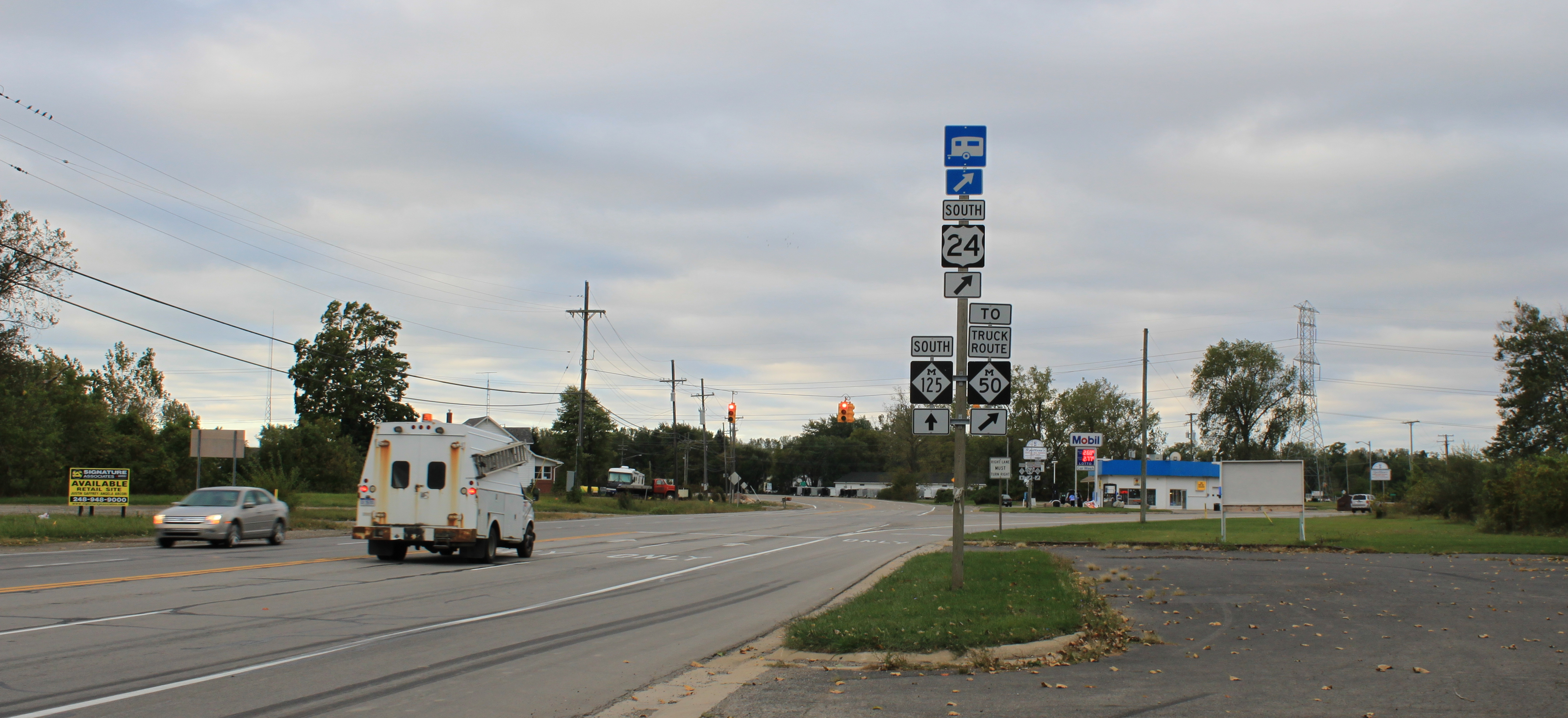 Intersection of M-125 and US 24 in Frenchtown Township, Michigan.